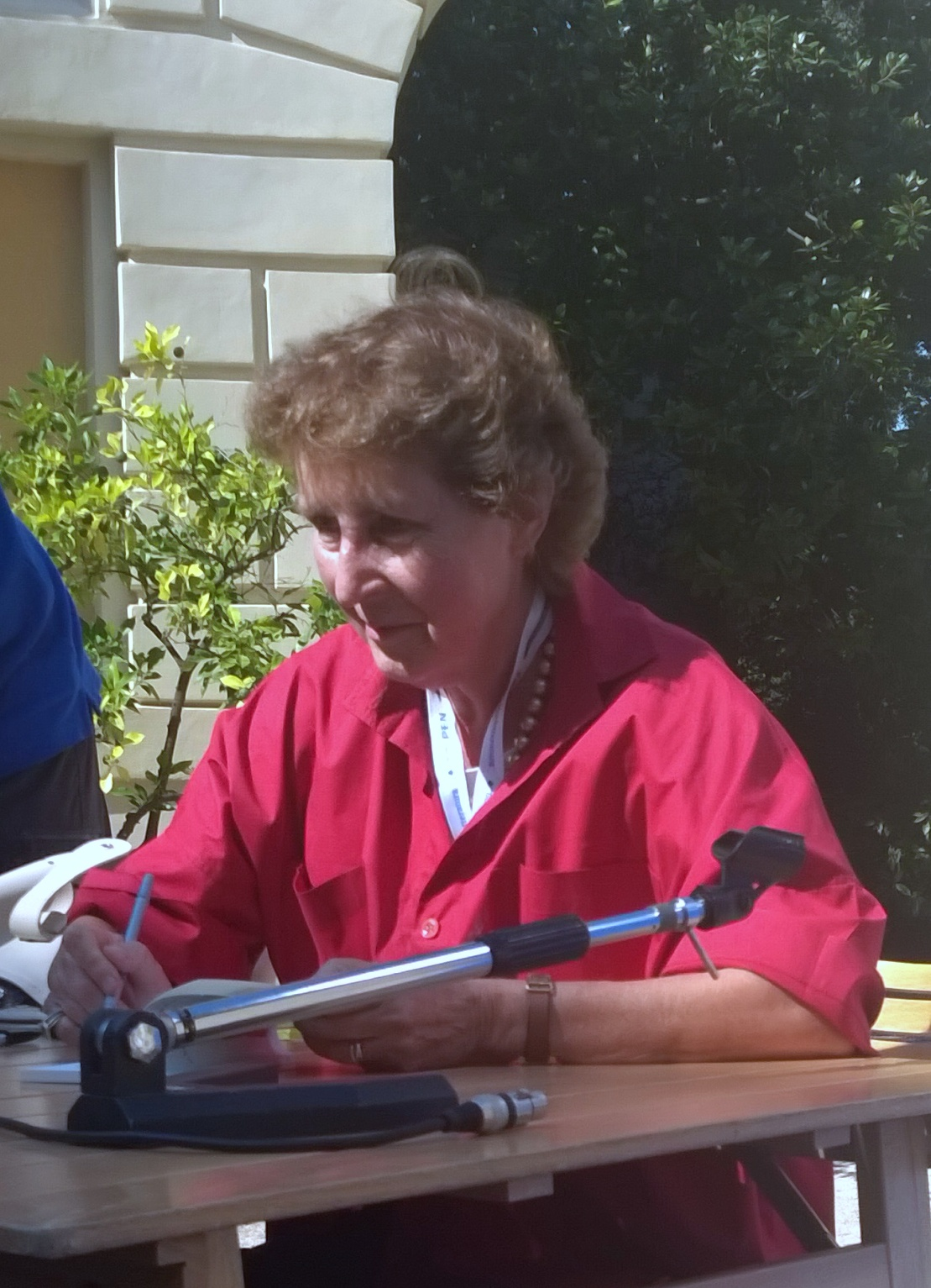 Benedetta Craveri signing autographs at the Literature Festival in Mantua in the courtyard of Palazzo d'Arco